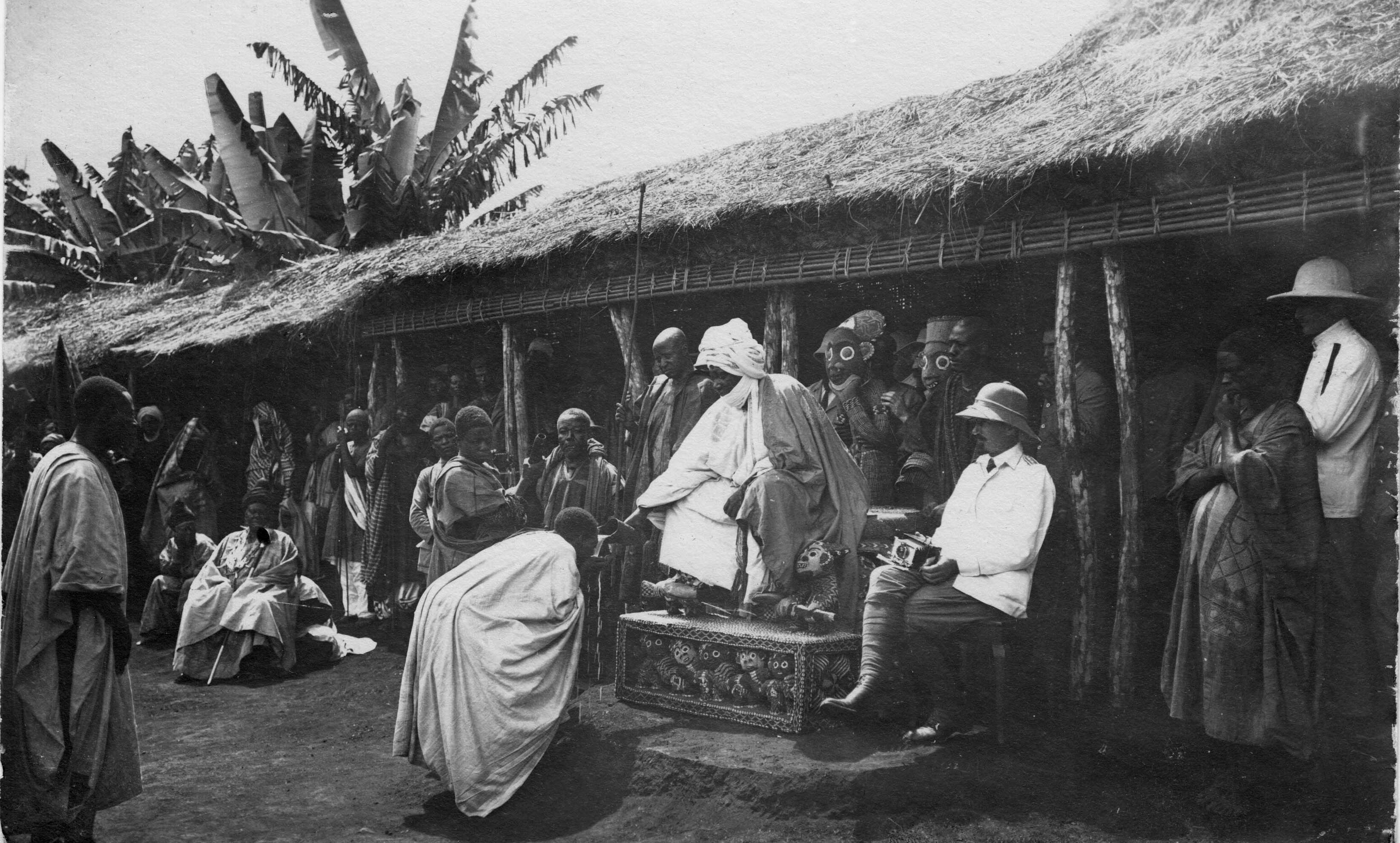 King Njoya of Bamun